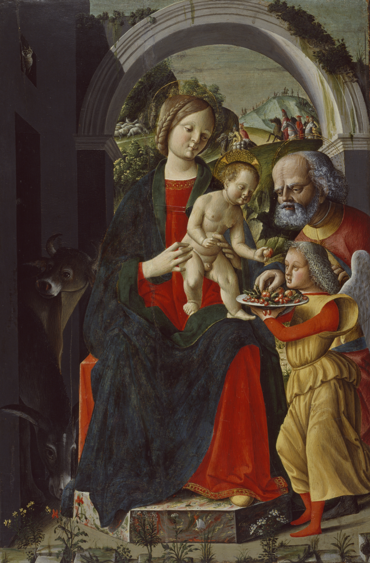 The subject of this painting is the celebration of Christ's birth, although the infant Christ, who stands in his mother's lap, seems much older than a newborn. The ass and ox on the left are traditional witnesses of Christ's birth in the Bethlehem stable. The procession in the background signals a later event: the arrival of the wise men from the East to pay homage to the Messiah. The painting is spectacular for its many plant and animal details, each with a specific symbolic significance. For instance, the snail (in the right corner) was often meant to suggest sin because of its trail of slime, and the red poppy (the second flowering plant on the left) is a traditional symbol of Christ's Passion because of its color.